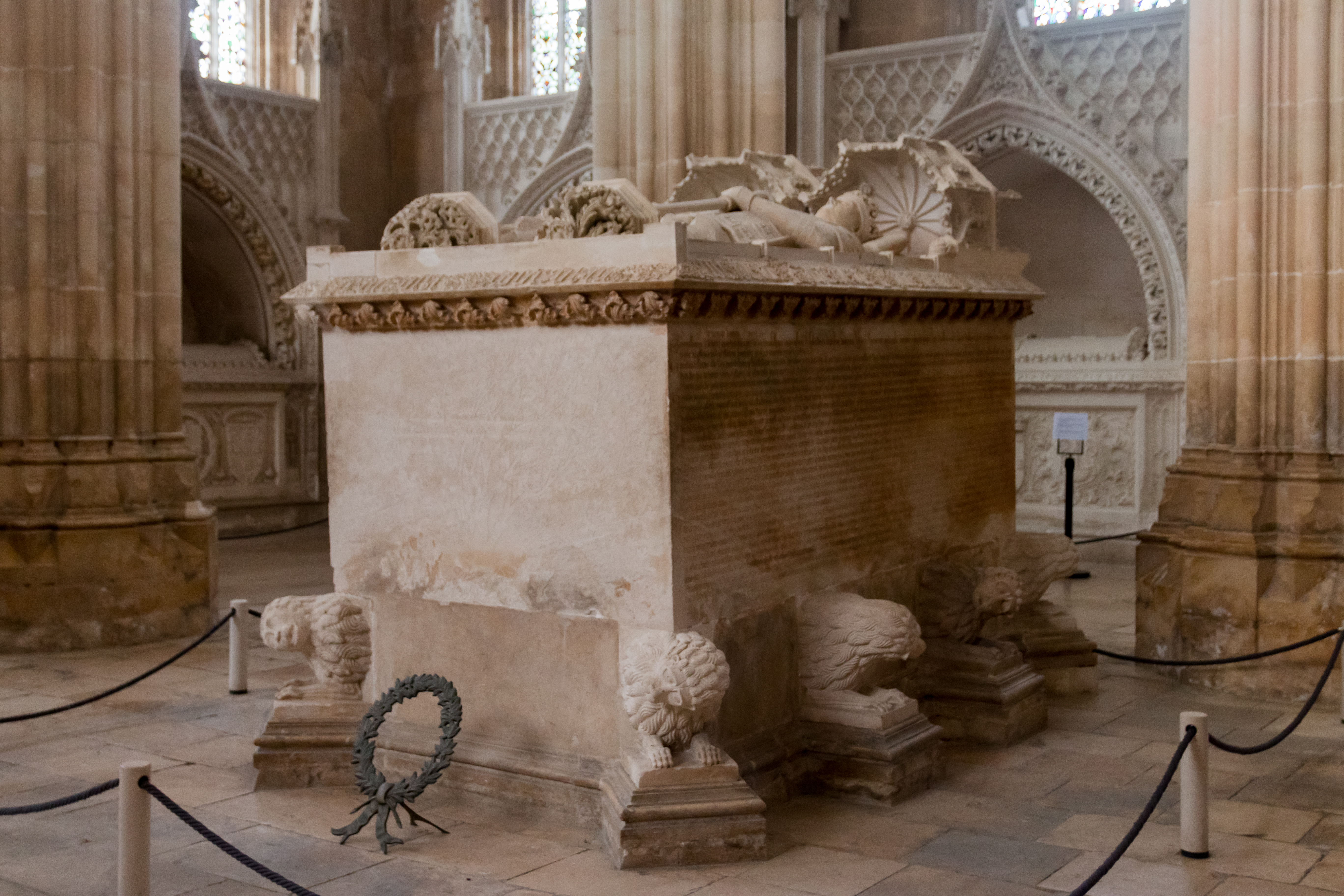 Tomb of King John I and Queen Philippa of Lancaster.